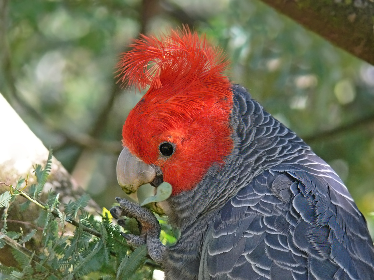 A male Gang-gang Cockatoo. It is eating a seed that is held in its left foot. Photograph shows upper body.